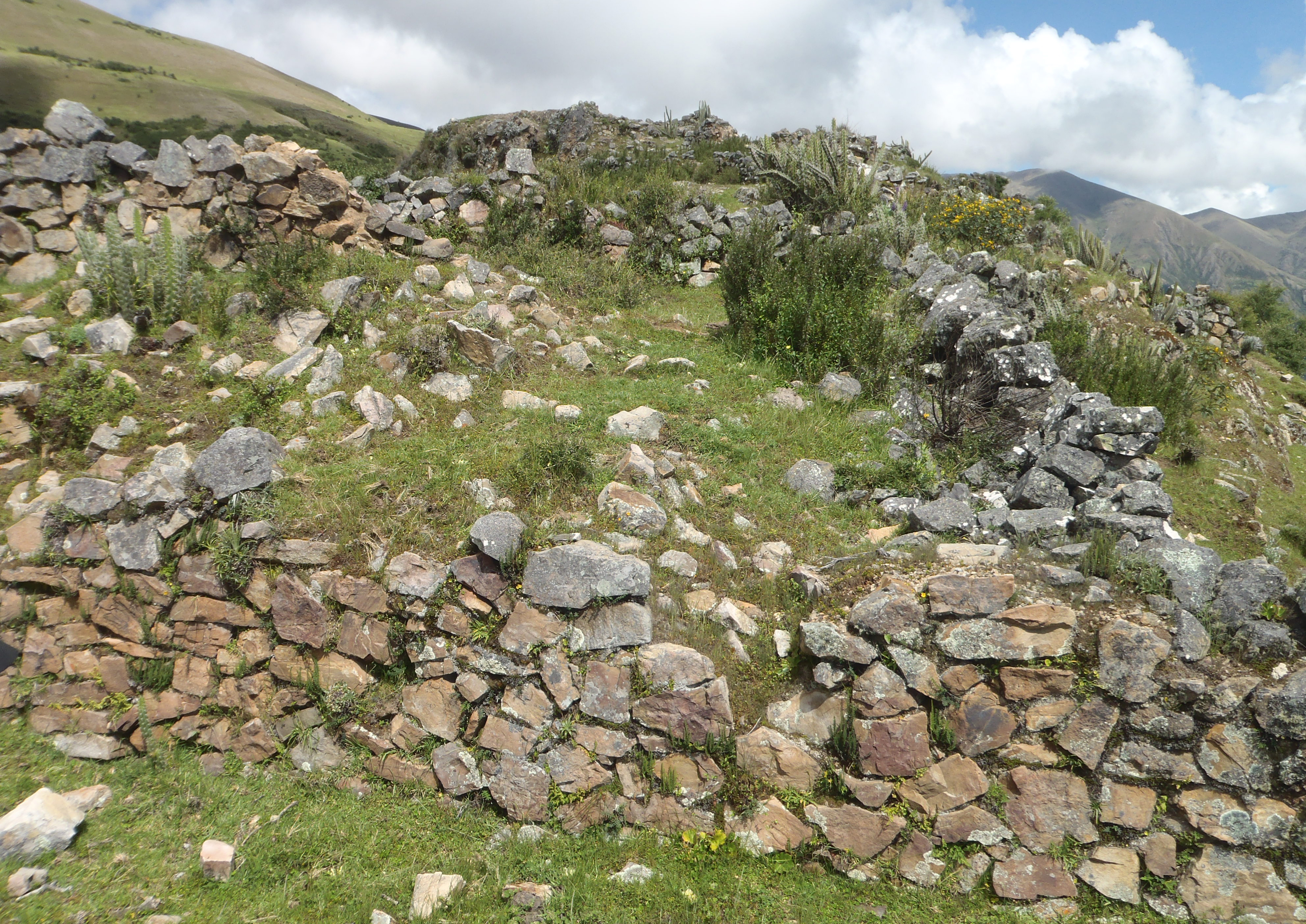 Yanaca is a pre-inca ruins group situated in Peru, Apurimac region, Yanaca district. Tunay Kassa is one of these ancient village, situated at 4 km from Yanaca village. This picture represents a view of Tunay Kassa.